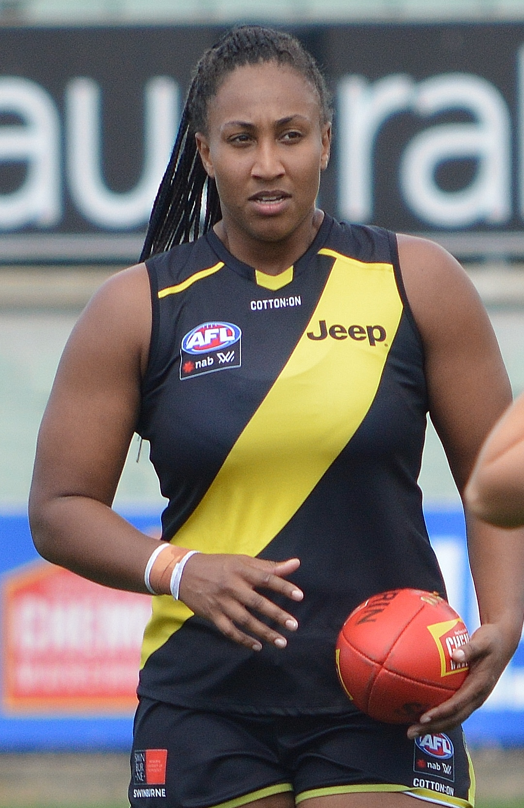 Sabrina Frederick with Richmond during the round 3, 2020 AFL Women's match against North Melbourne at Ikon Park.